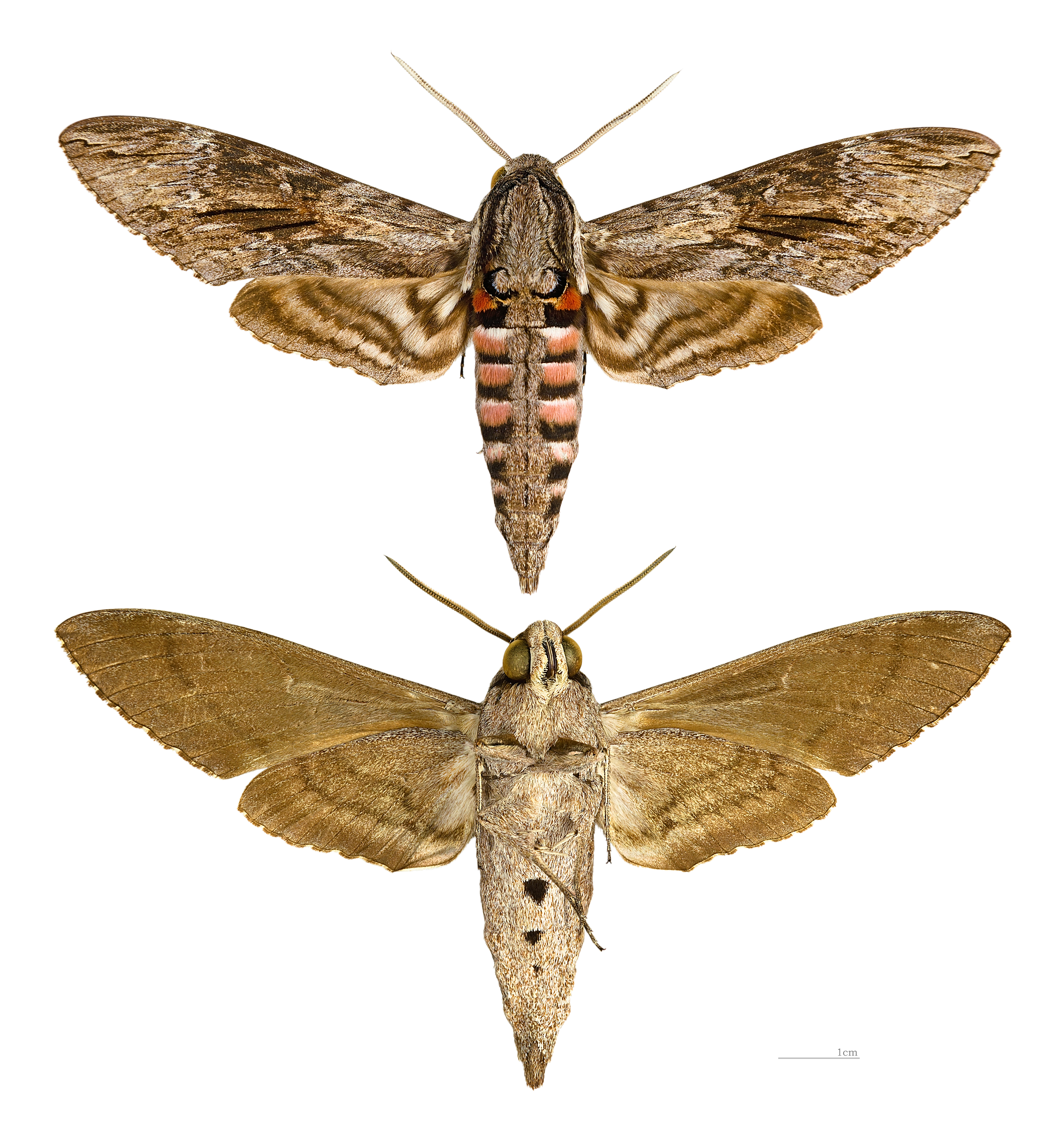 Convolvulus Hawk-moth - Two views of same specimen